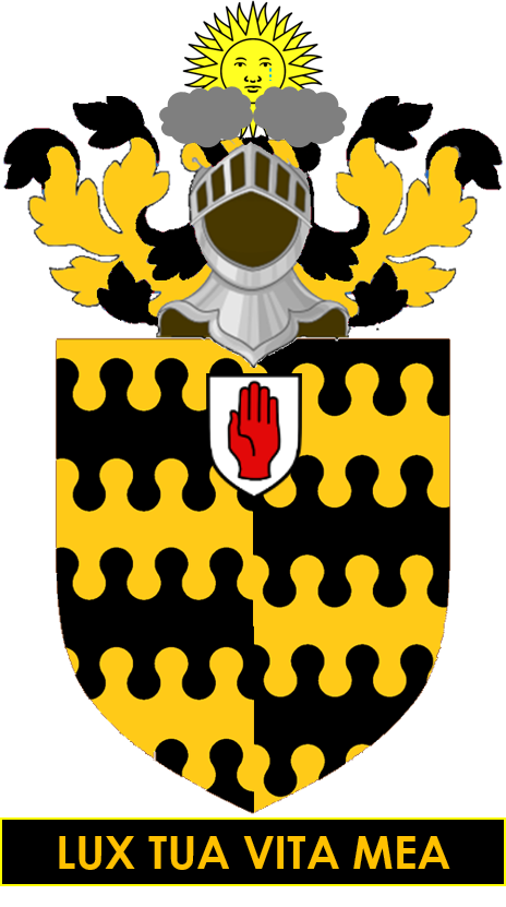 Shield of arms of the Blunt baronets of the City of London